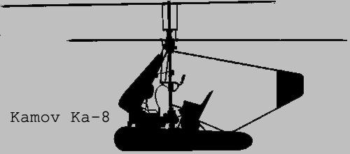 Kamov ka-8